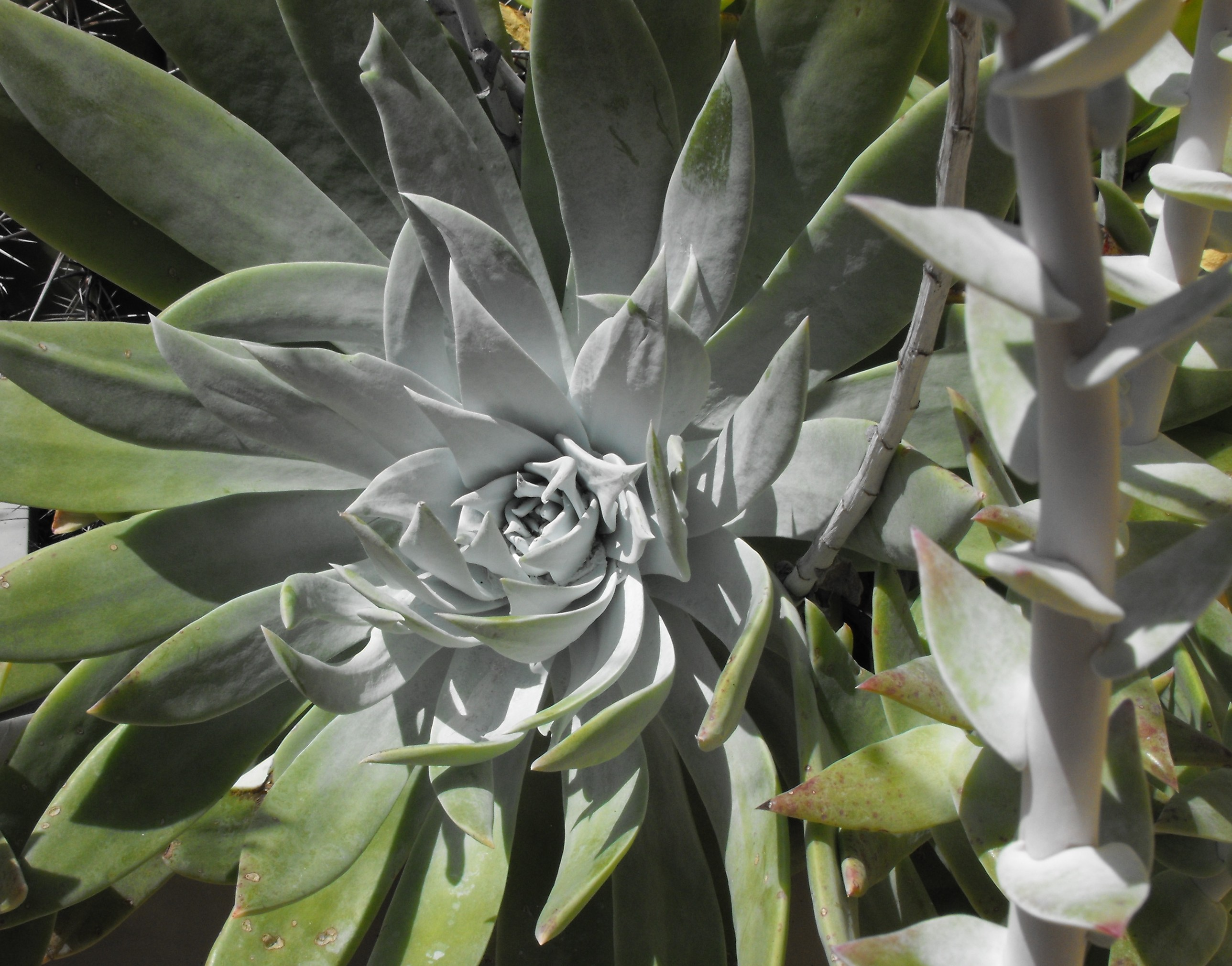 Dudleya anthonyi - at the Rancho Santa Ana Botanic Garden in Claremont, Southern California, U.S. Identified by garden i.d. sign.